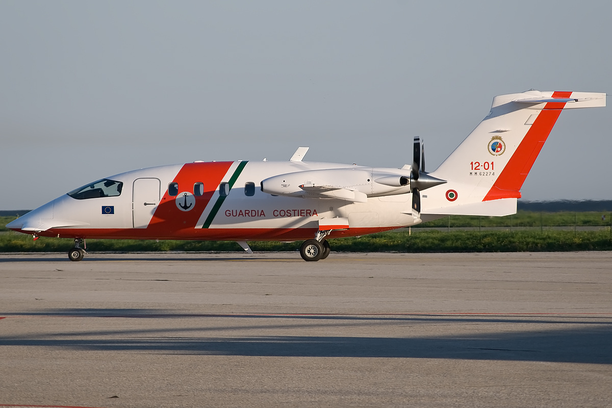 Guardia Costiera Piaggio P-180 Avanti II at Genoa Airport